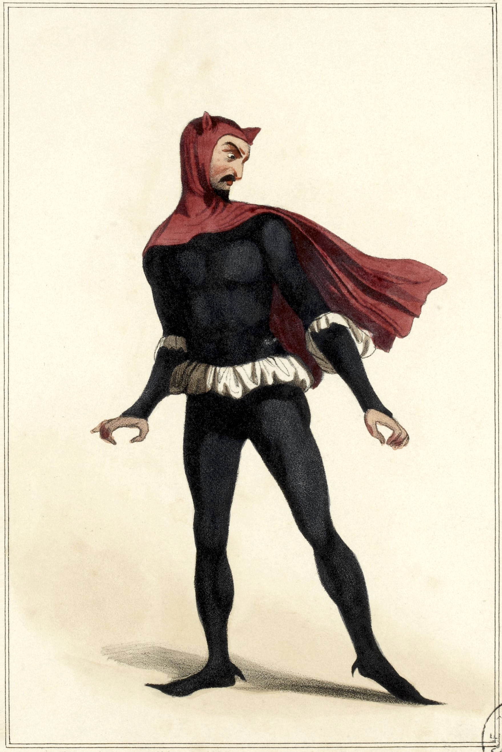 Étienne Mélingue as Le Mauvais Ange in Don Juan de Marana ou La chute d'un ange : mystère en 5 actes et 7 tableaux / texte d'Alexandre Dumas. - Paris : Théâtre de la Porte Saint-Martin, 30-04-1836.